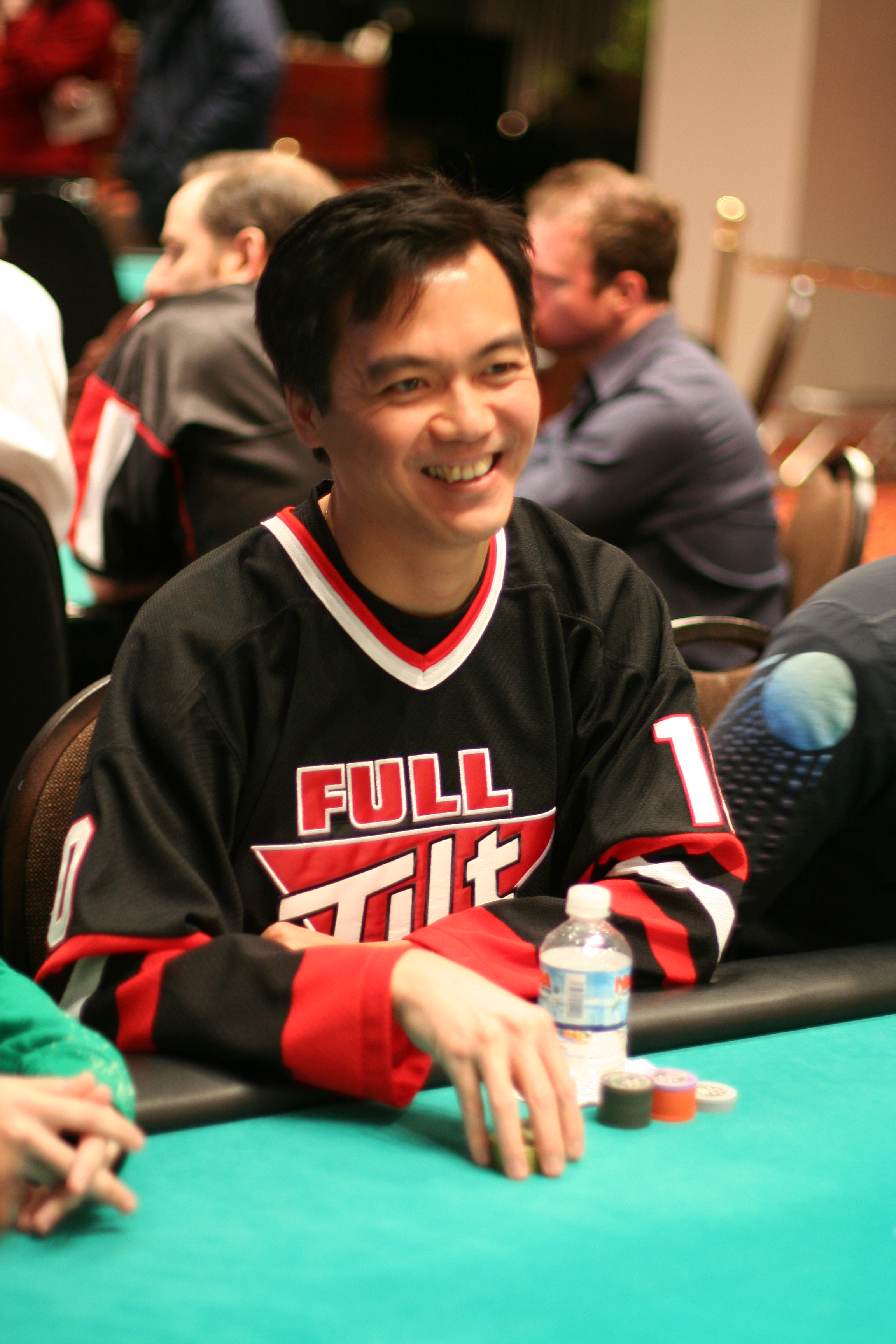 John Juanda, professional poker player.